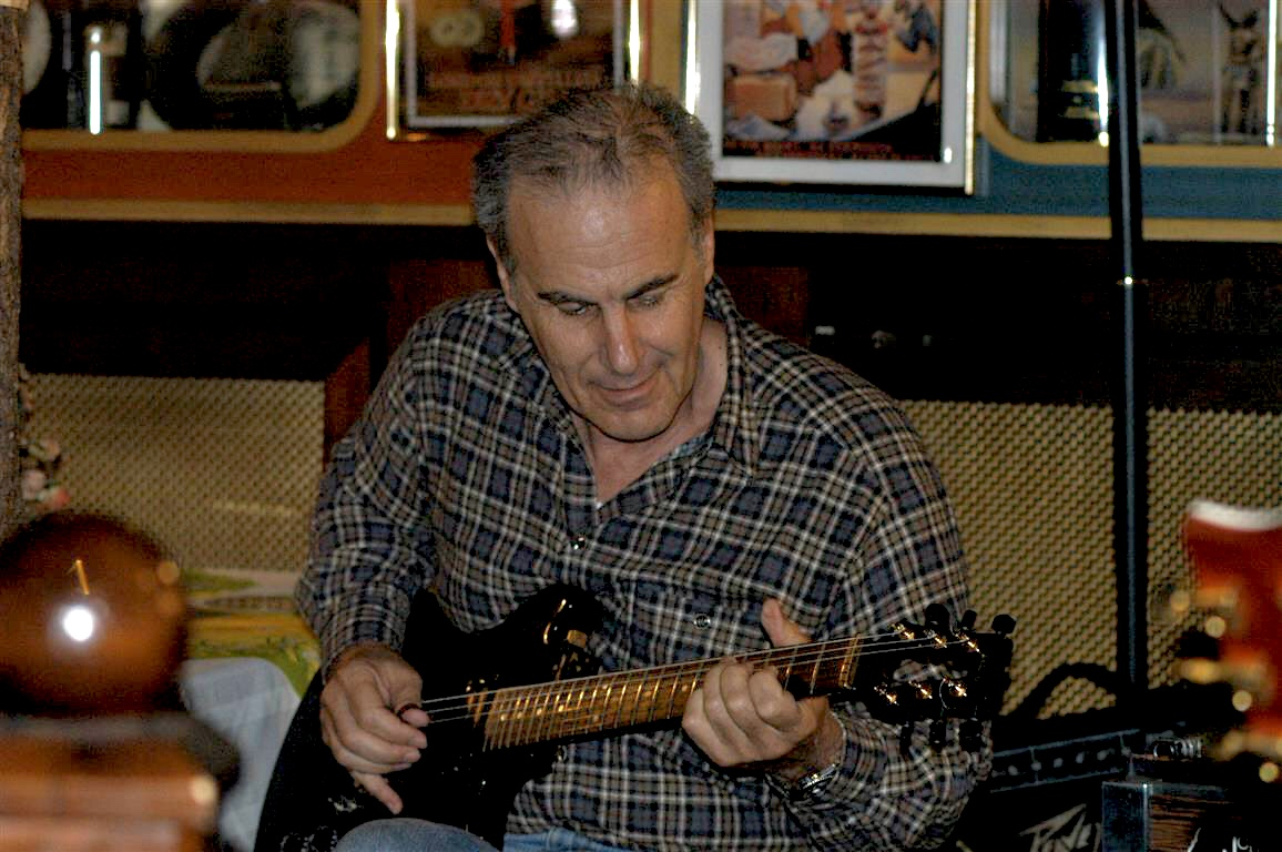 Roger Field in 2004 Hanau Germany playing his Foldax